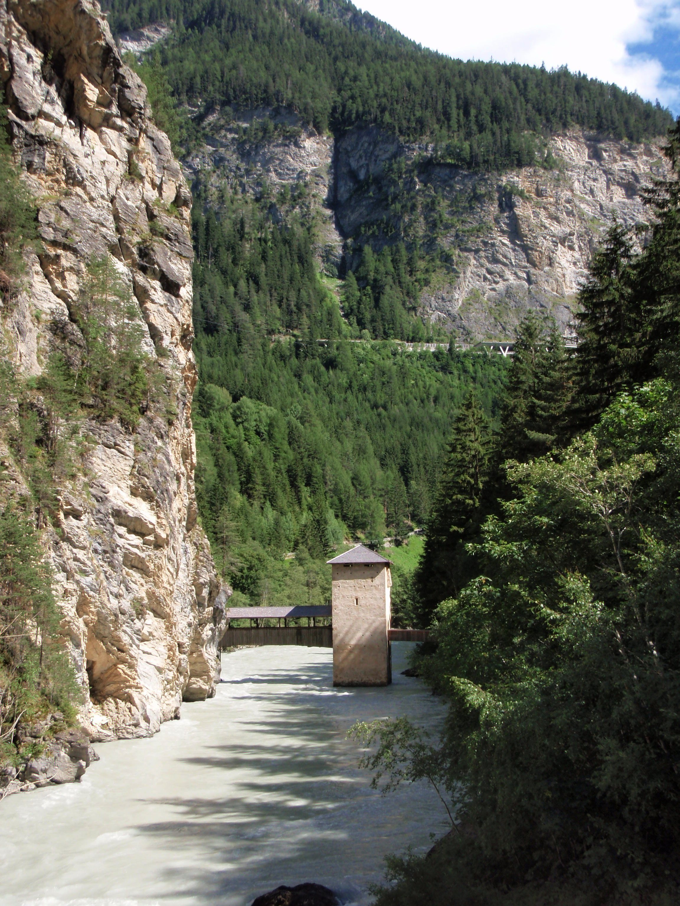 View of Finstermünz, with the bridge over the Inn, the Via Claudia Augusta (slanting upwards), and the new road above